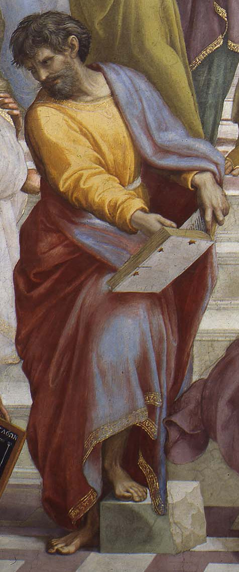 Parmenides, Greek philosopher